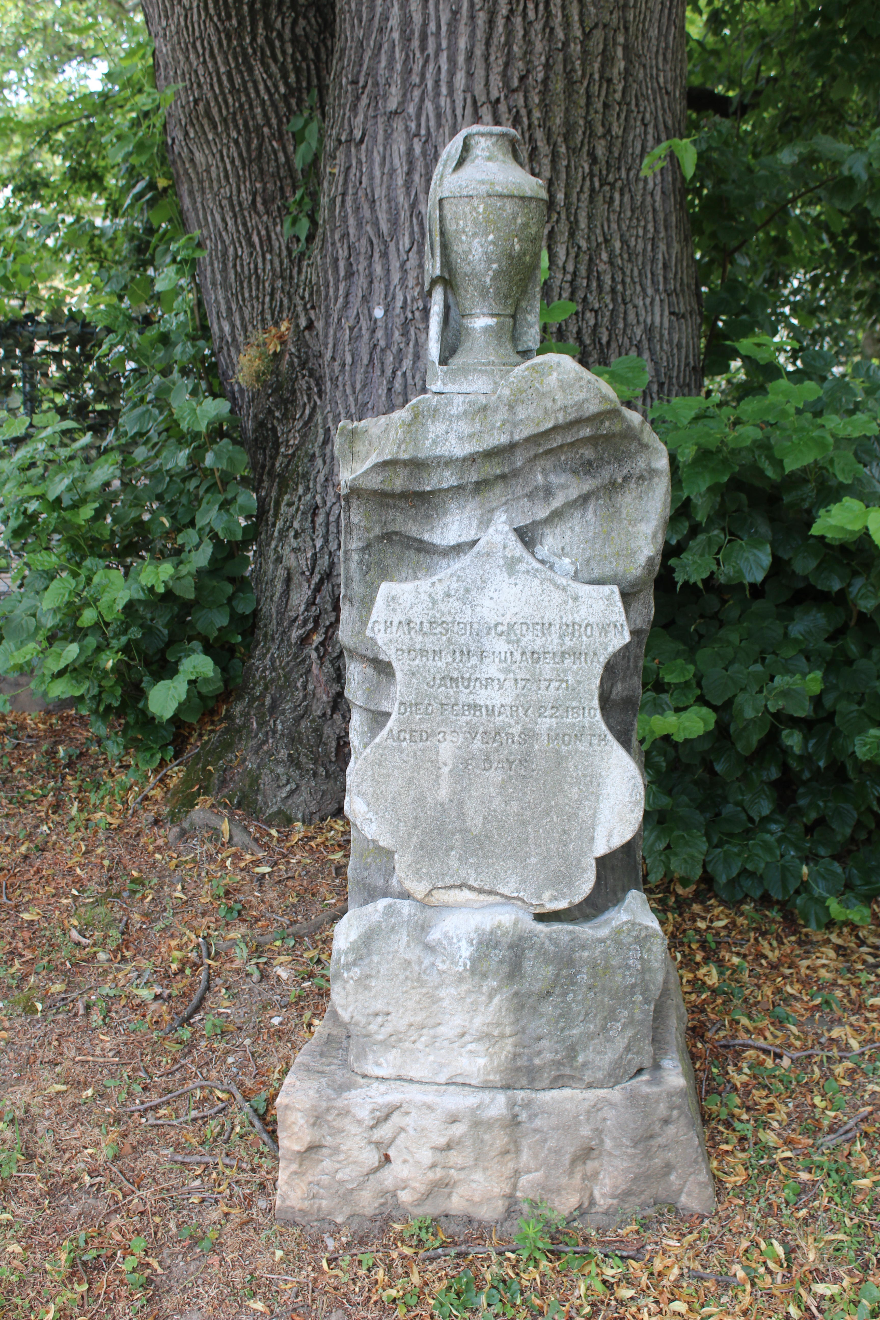 Charles Brockden Brown cenotaph in Laurel Hill Cemetery. Photo taken July 2020.